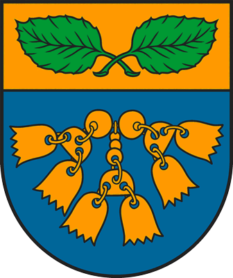 Coat of arms of Rucava Municipality, Latvia